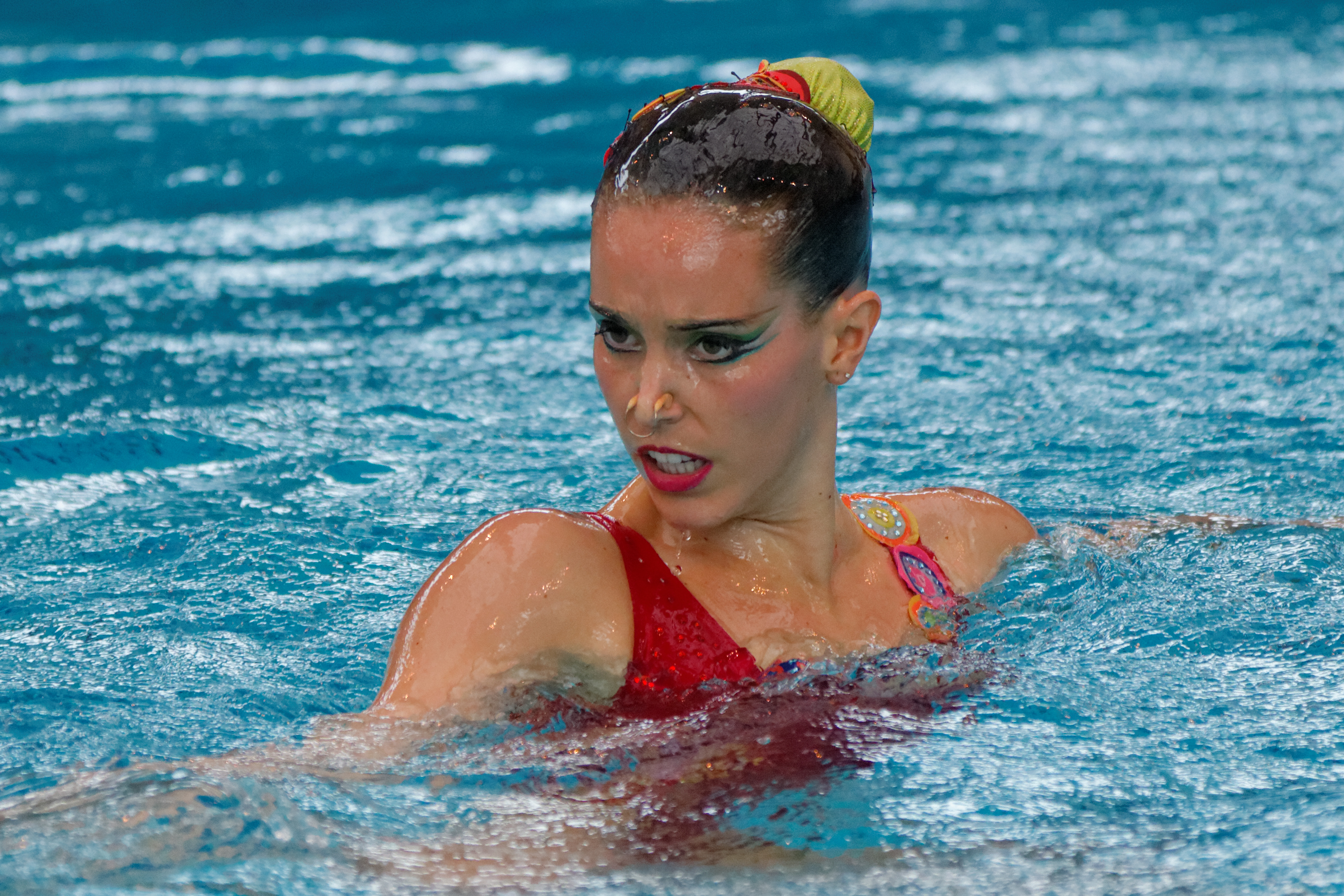 The Spanish synchronized swimmer Ona Carbonell during the free solo routine at the French Open in Montreuil, March 16, 2013.